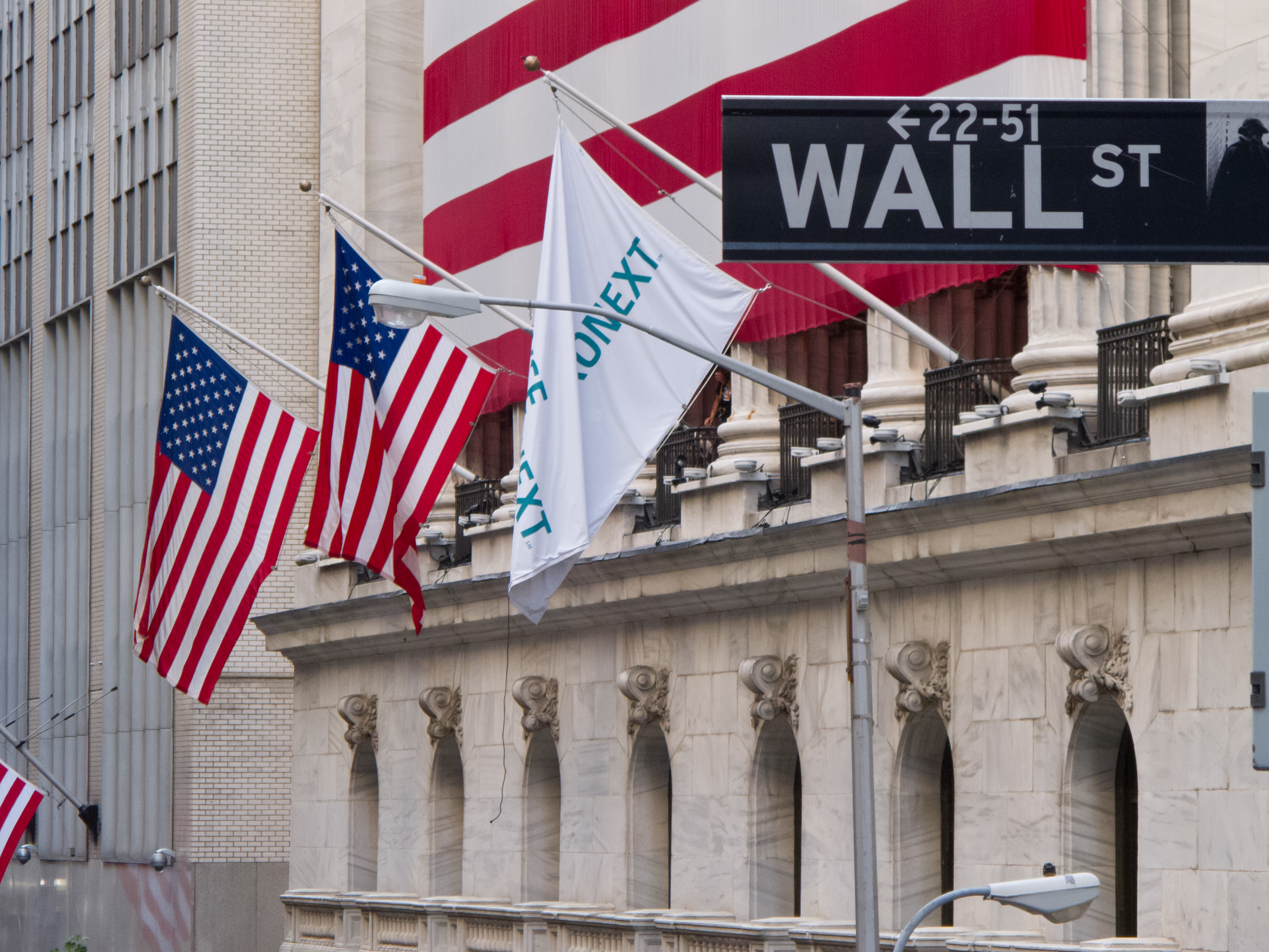 New York Stock Exchange, Wall Street, New York, United States.